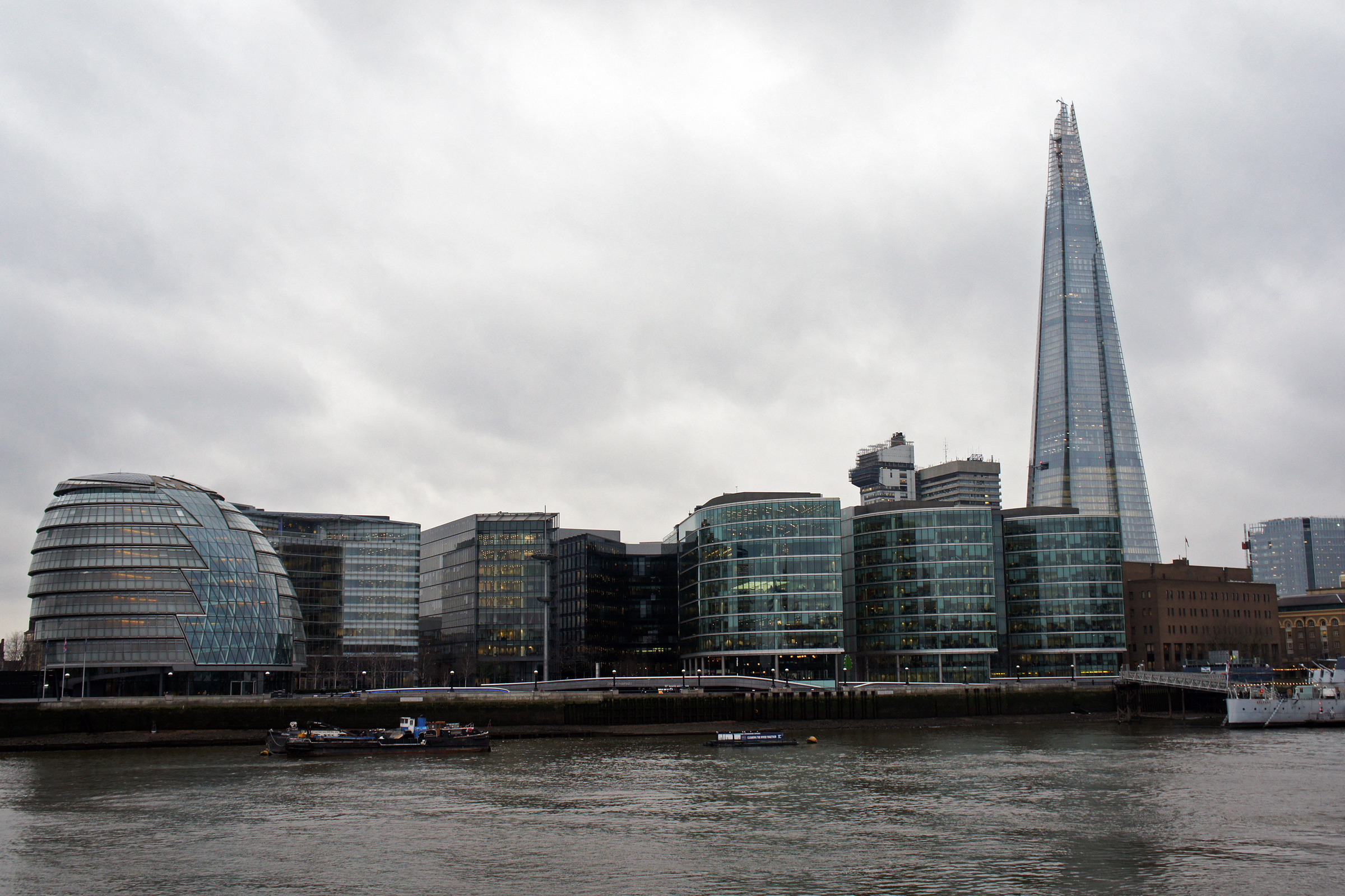 City Hall (left) and the Shard London Bridge (right)